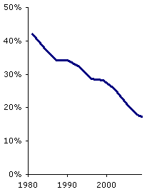 Percentage of world population in extreme poverty as defined by the World Bank ($1.25 per day). NOTE: This graph is outdated. More recent data here: File:Extreme poverty 1981–2008.png Sources: Poverty triennially 1981-2005: World Bank (2008), The Developing World Is Poorer Than We Thought, But No Less Successful in the Fight against Poverty Projections for 2008 and 2009: World Bank (2009), GLOBAL MONITORING REPORT 2009, p. 48 Population: UN Population Prospects